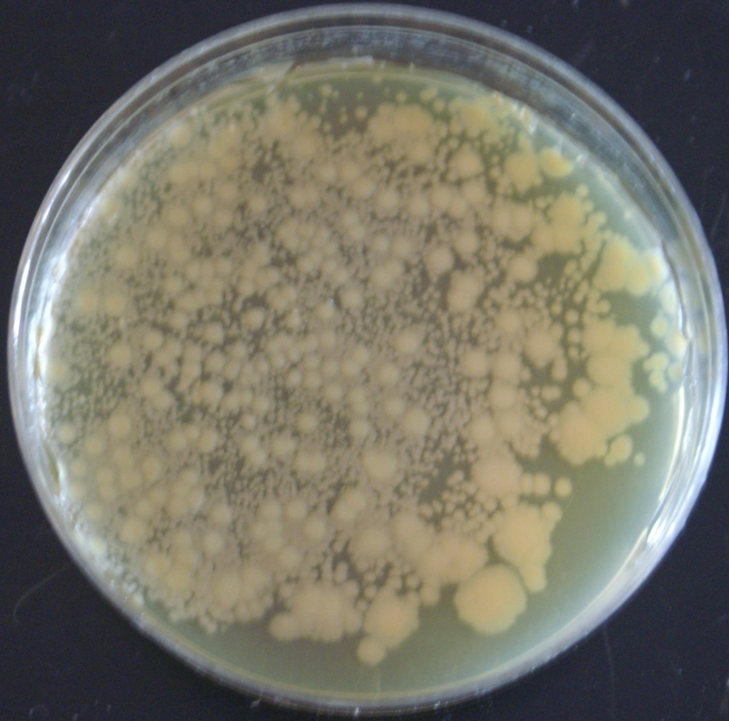 PLGO under ambient light